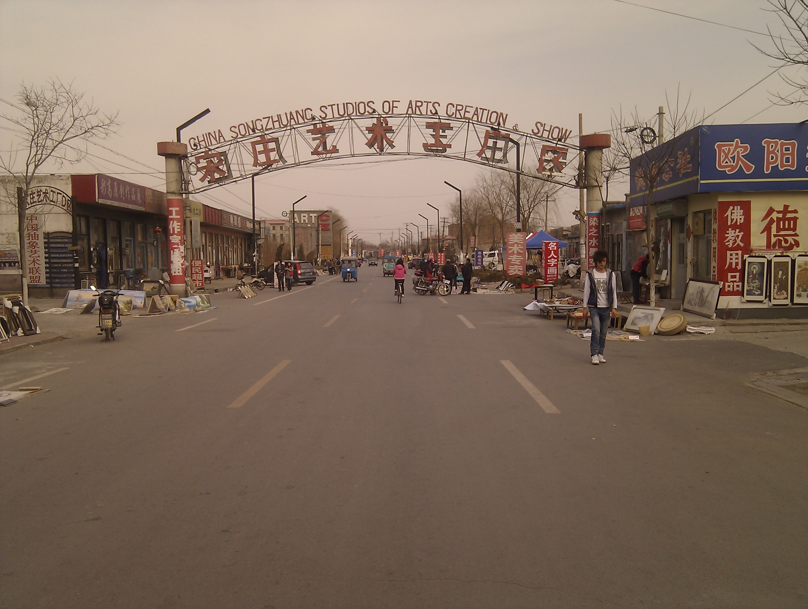 Gates to Song Zhuang art town